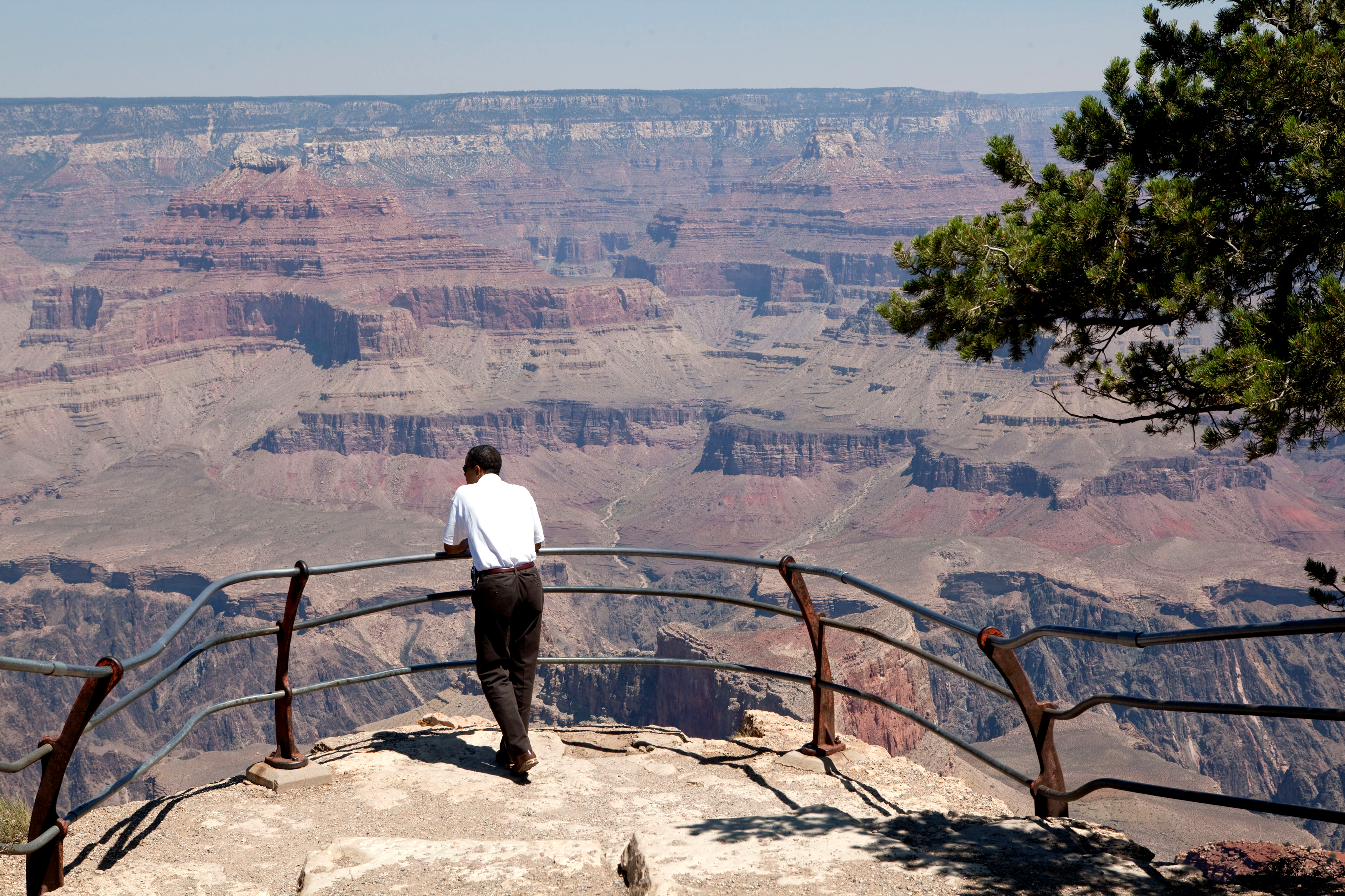 President Barack Obama looks at the Grand Canyon in Arizona on Aug. 16, 2009.